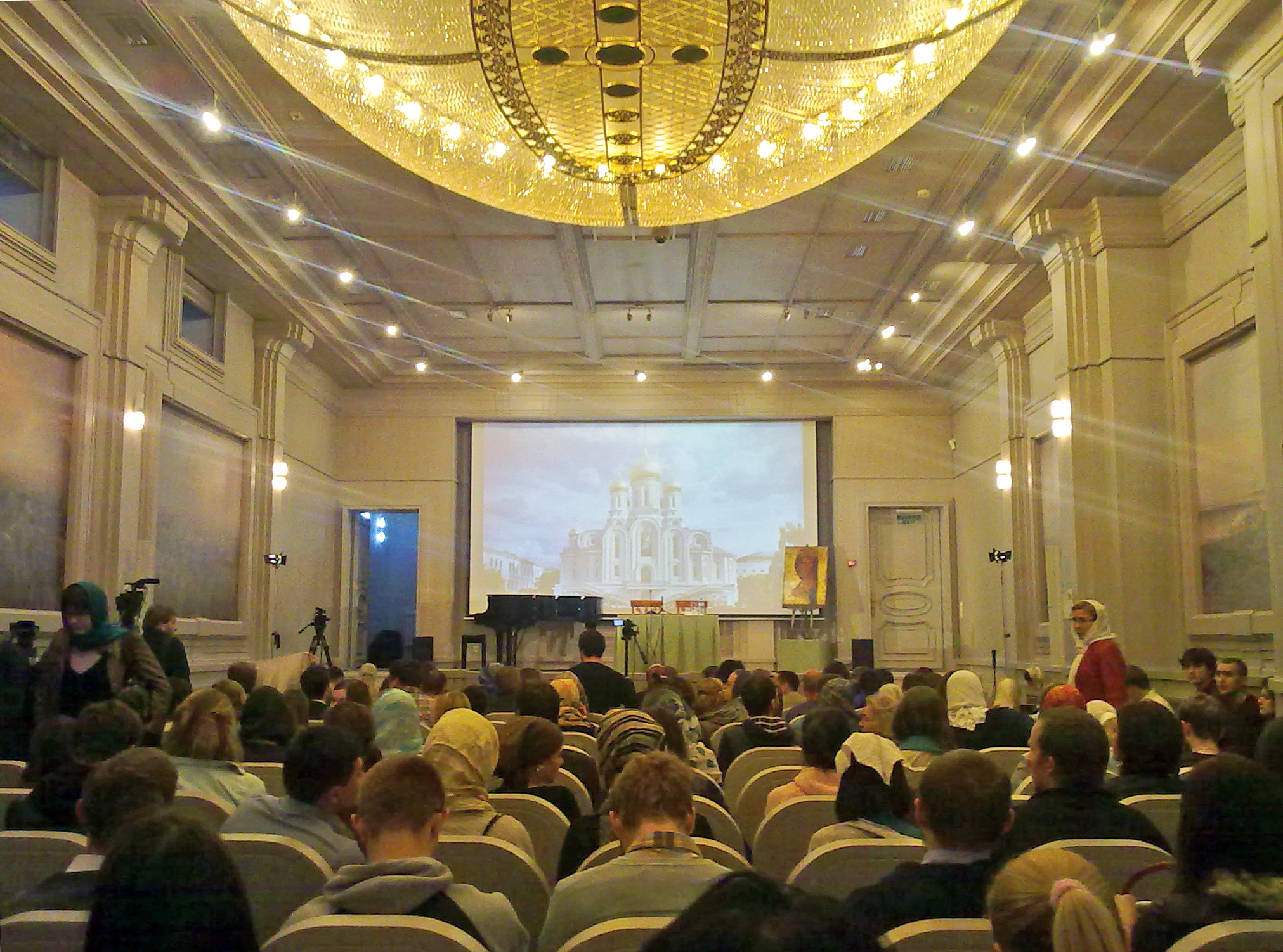 Assembly hall of Candlemas Theological Seminary, Moscow